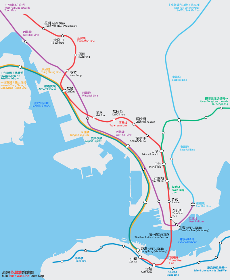 港鐵荃灣綫路線圖（按真實地形繪畫） Geographically accurate map of the MTR Tsuen Wan Line By Bus_28a, Mtrkwt